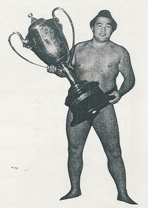 Sekiwake (later the 37th Yokozuna) Akinoumi Setsuo holding the Emperor's Cup after winning the May 1940 Grand Sumo Tournament.